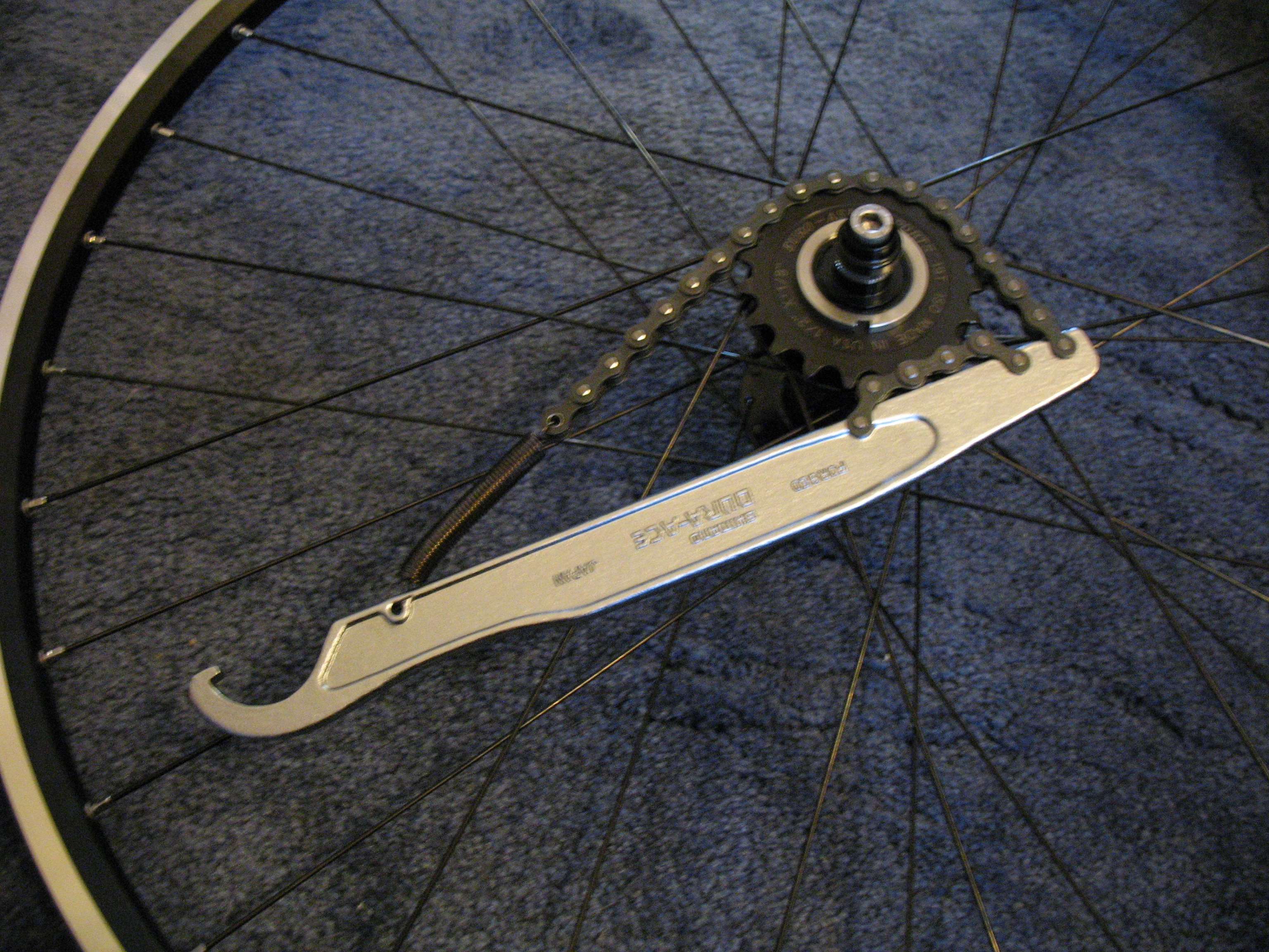 Dura Ace 1/8 chain whip and lockring spanner. A very handy tool. The wheel is a Goldtec track hub, Mavic A319 rim and the sprocket is a 19T EIA. Laced 32 spoke, 3 cross.